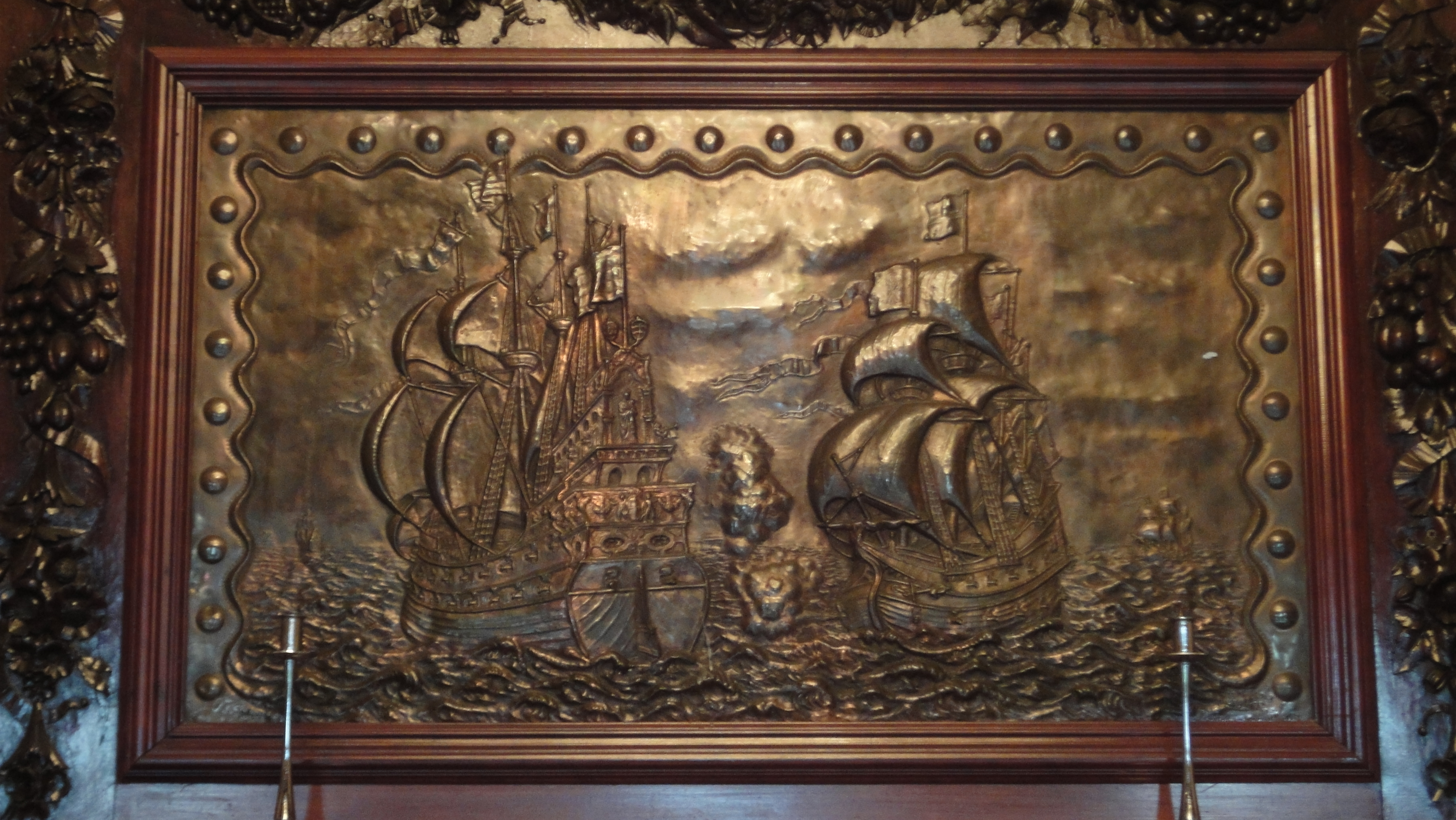 The copper frieze depicting the Battle of Lepanto, made by Smithies of Wilmslow 1898. Located at St. Helen's, Booterstown, Dublin, Ireland